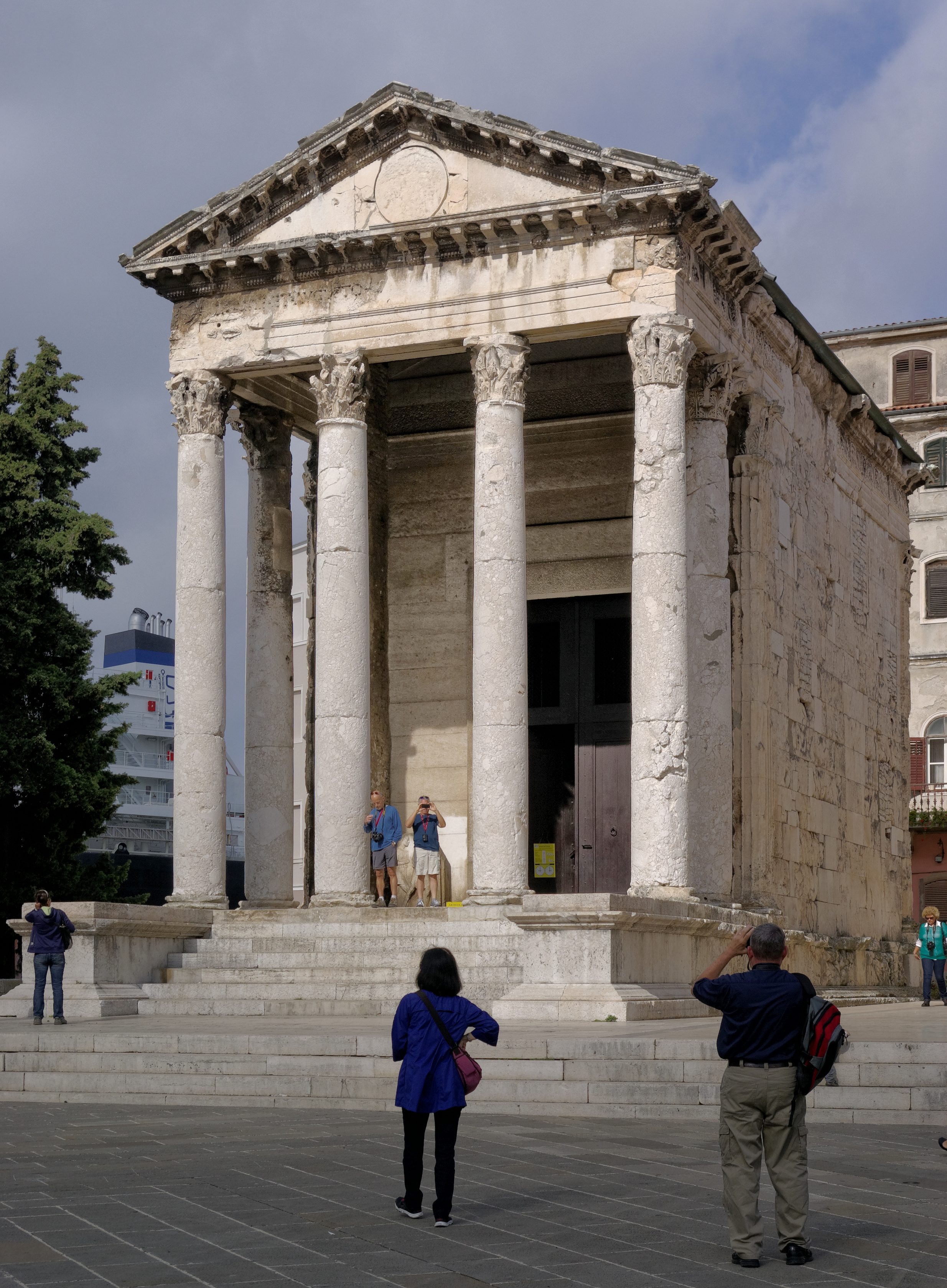 Croatia, Pula, Temple of Roma and Augustus, facade